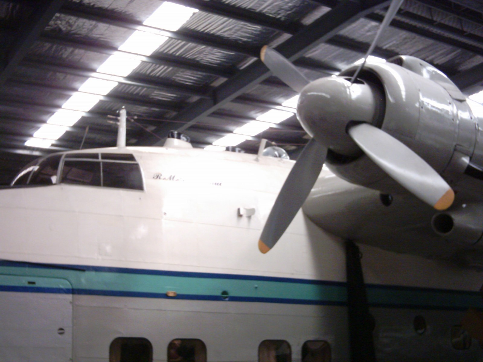 A Short Solent plane at the Museum of Transport and Technology (MOTAT), Auckland City, New Zealand.